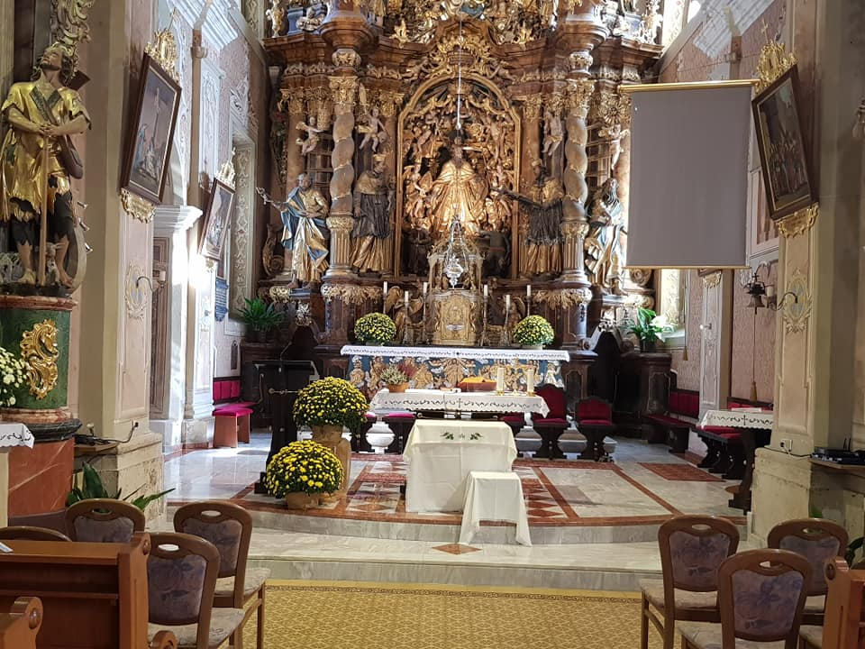 Main Altar of St Martin Church